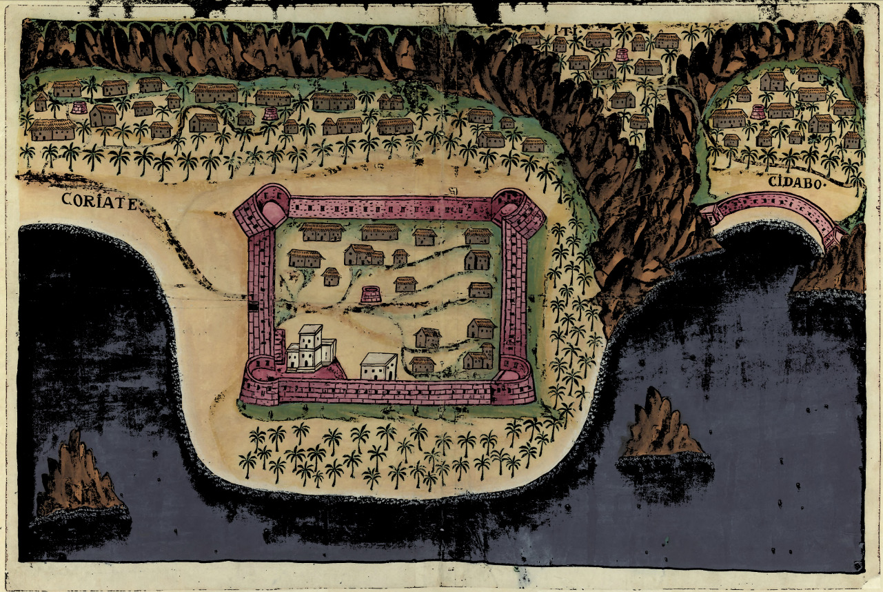 Portuguese Fortress of Qurayyat ( Curiate) .Livro das plantas de todas as fortalezas, cidades e povoaçoens do Estado da India Oriental / António Bocarro [1635]